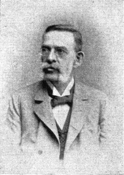 Ludwig Held (14 April 1837 - 2 March 1900), Austrian writer and librettist